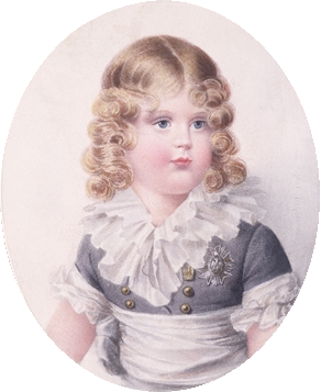 Portrait of Napoleon II, circa 1815